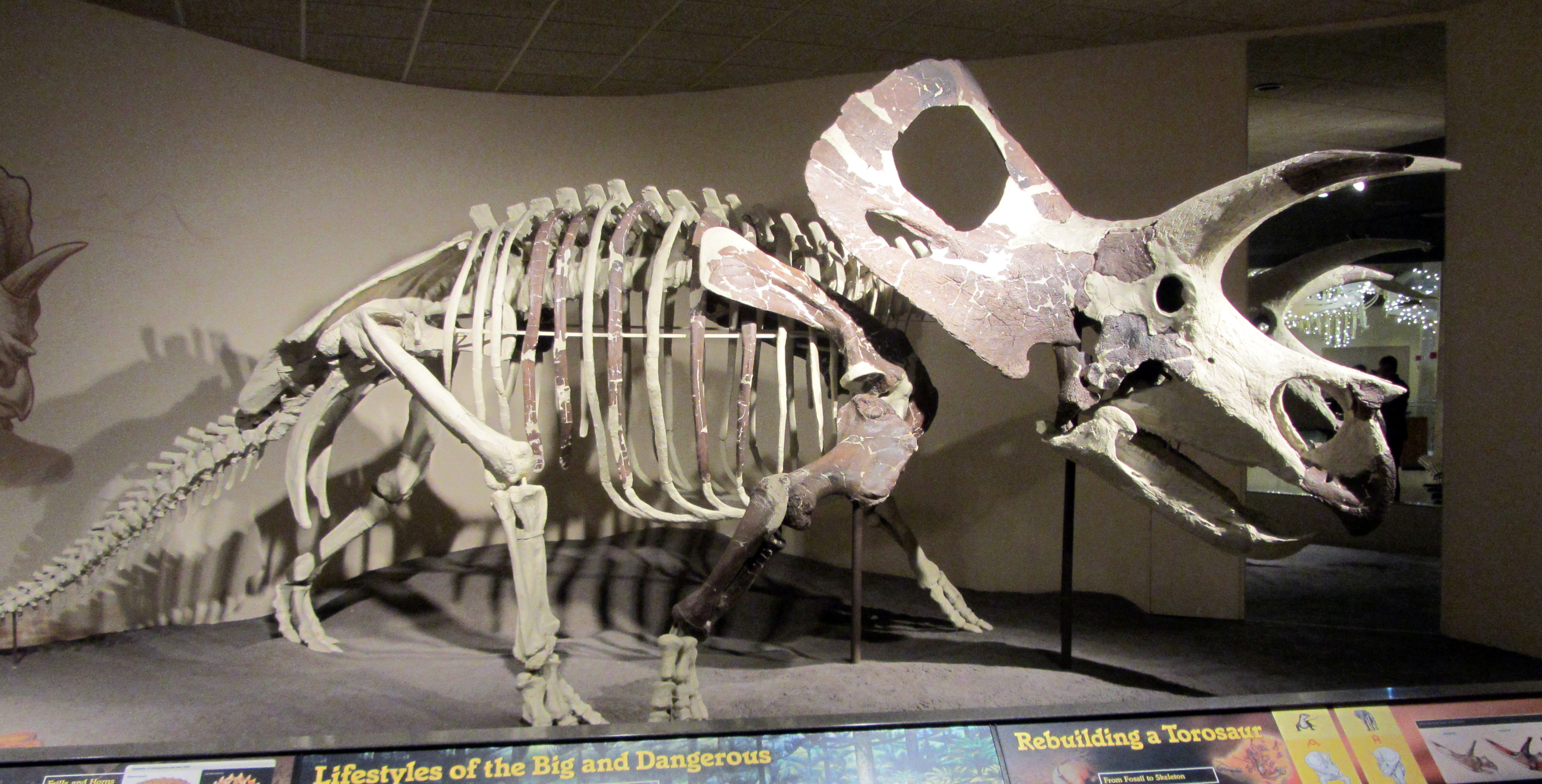 A Torosaurus at the entrance of the "Third Planet" exhibit.